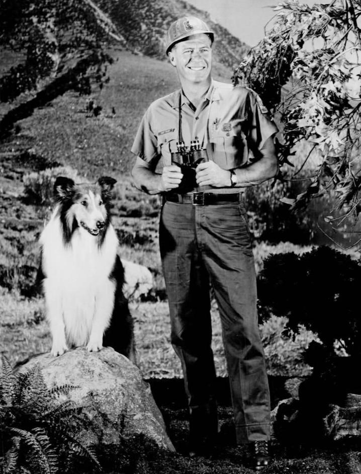 Photo of Robert Bray as forest ranger Corey Stuart and Lassie from the television program Lassie.